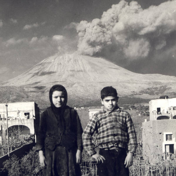 Creator: Shaffer, Melvin C. Date: 1944 Part Of : World War II photographs, Medical Museum and Arts Service Place: Italy; San Sebastiano al Vesuvio; Vesuvius File: itmcs019it.jpg Rights: Please cite DeGolyer Library, Southern Methodist University when using this file. A high-resolution version of this file may be obtained for a fee. For details see the web page. For other information, . For more information